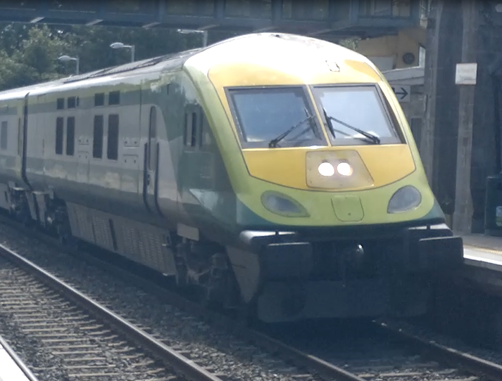 Mk4 Templemore